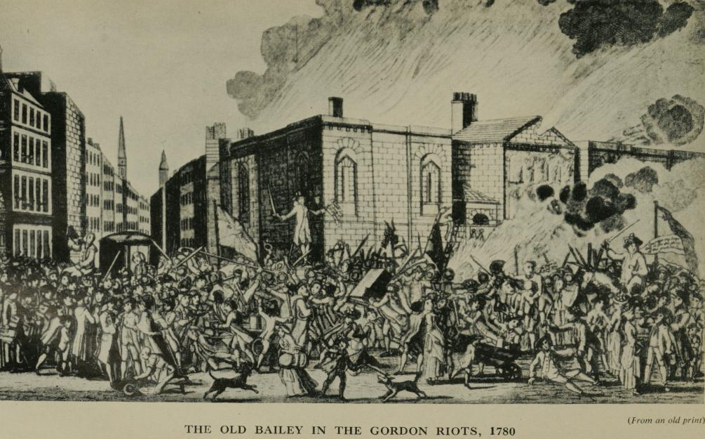 Illustration from book about the trial of Helen Duncan Image of the Old Bailey